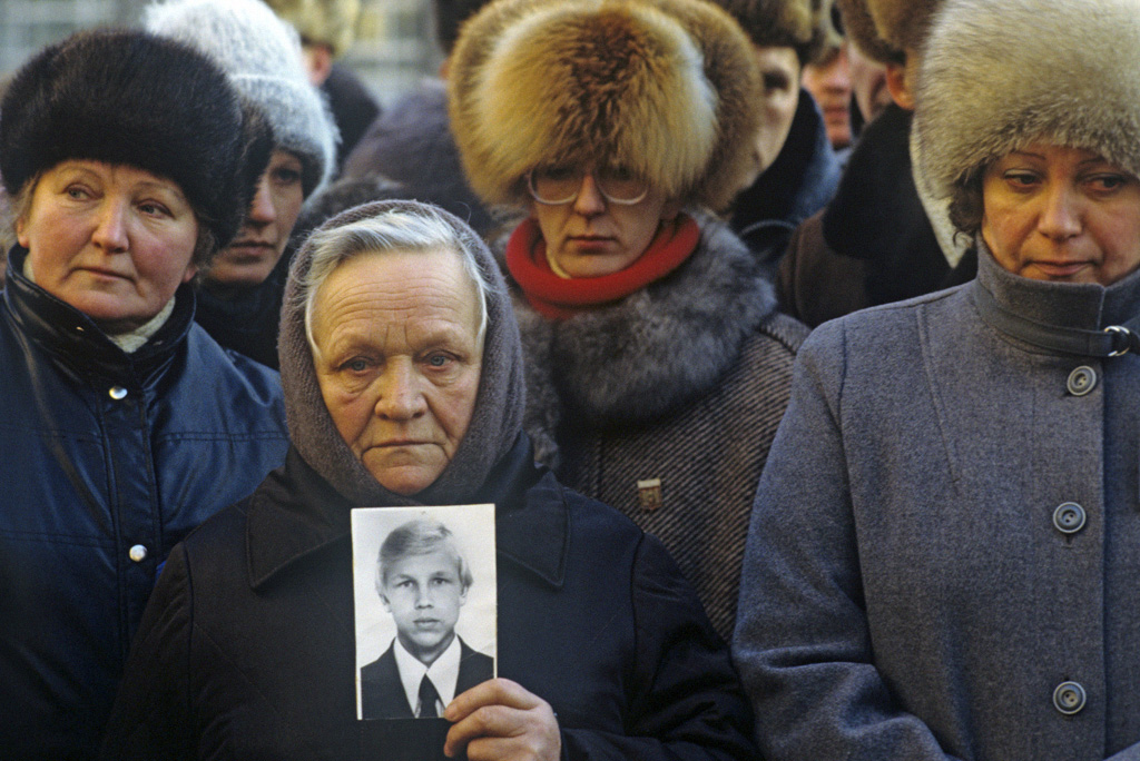 “Meeting at Pakistan Embassy”. A meeting was held at Pakistan Embassy in which relatives of the missing soldiers who fought in Afghanistan took part. The participants are appealing to embassy workers asking to support the efforts of Soviet and world community on rescuing Soviet soldiers from captivity.